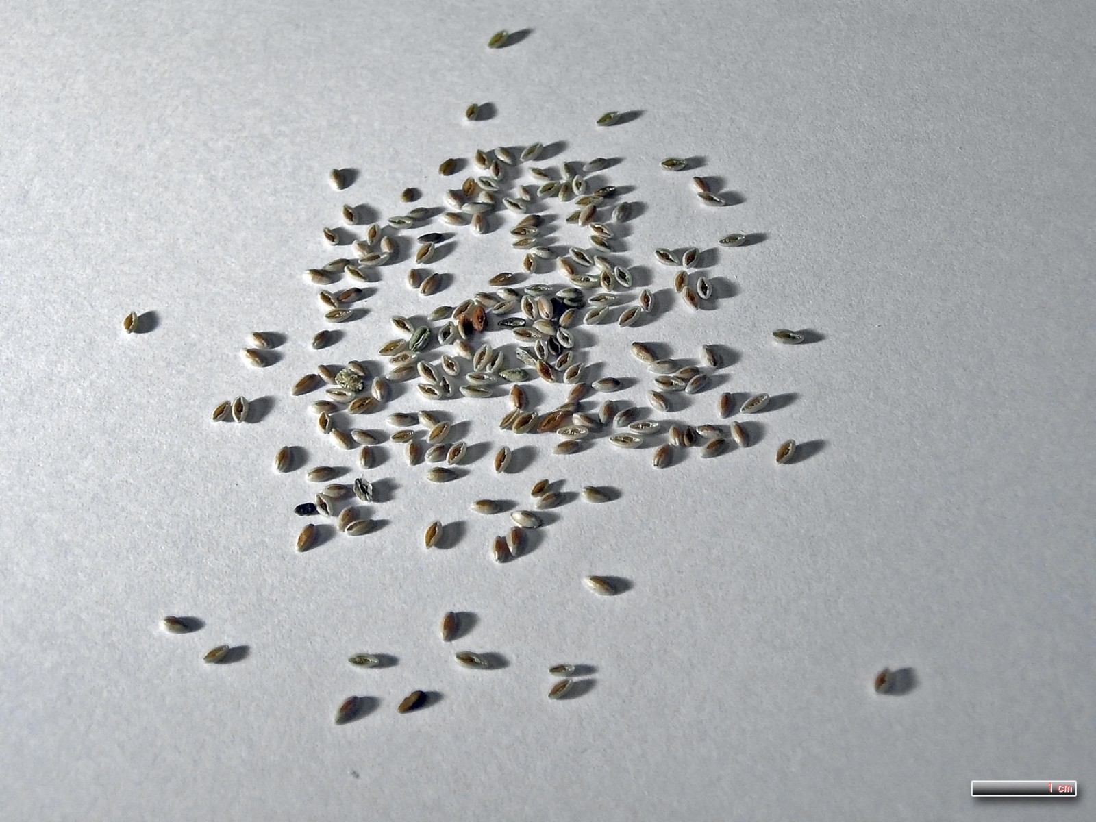 dried Plantago ovata (Desert Indianwheat, Blond Psyllium; syn. Plantago brunnea Morris, Plantago fastigiata Morris, Plantago gooddingii A. Nels. & Kennedy, Plantago insularis Eastw., Plantago insularis Eastw. var. fastigiata (Morris) Jepson, Plantago insularis Eastw. var. scariosa (Morris) Jepson, Plantago minima A. Cunningham) Seeds